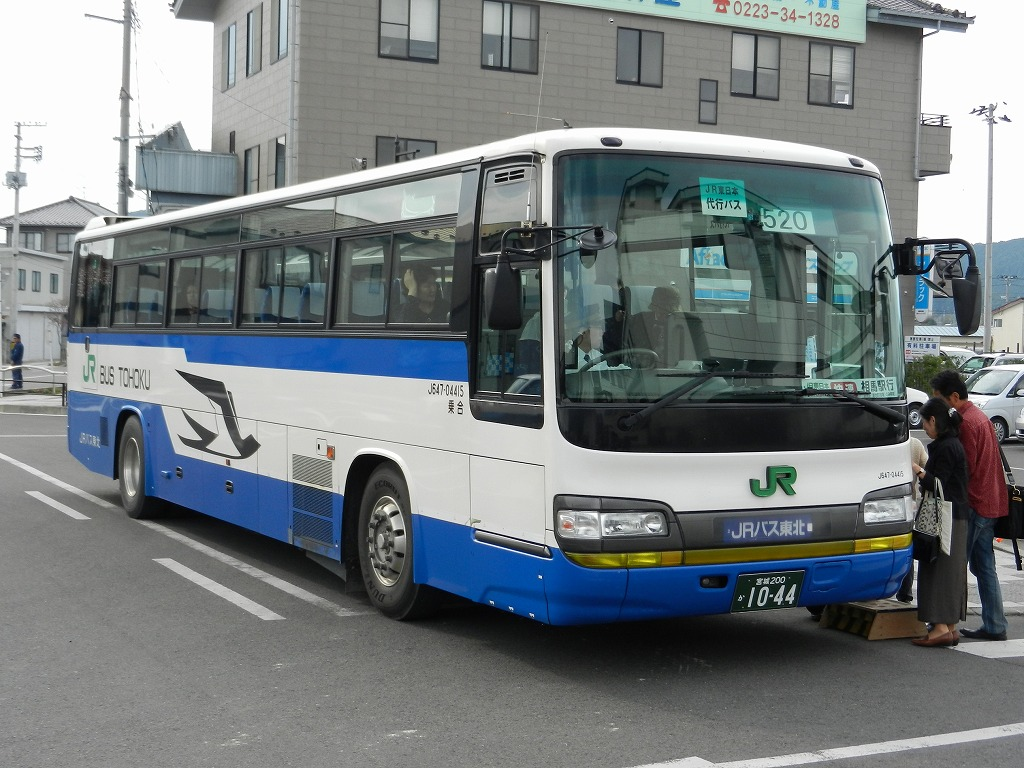 JR Joban line daiko-bus (Watari-Soma) at Watari station